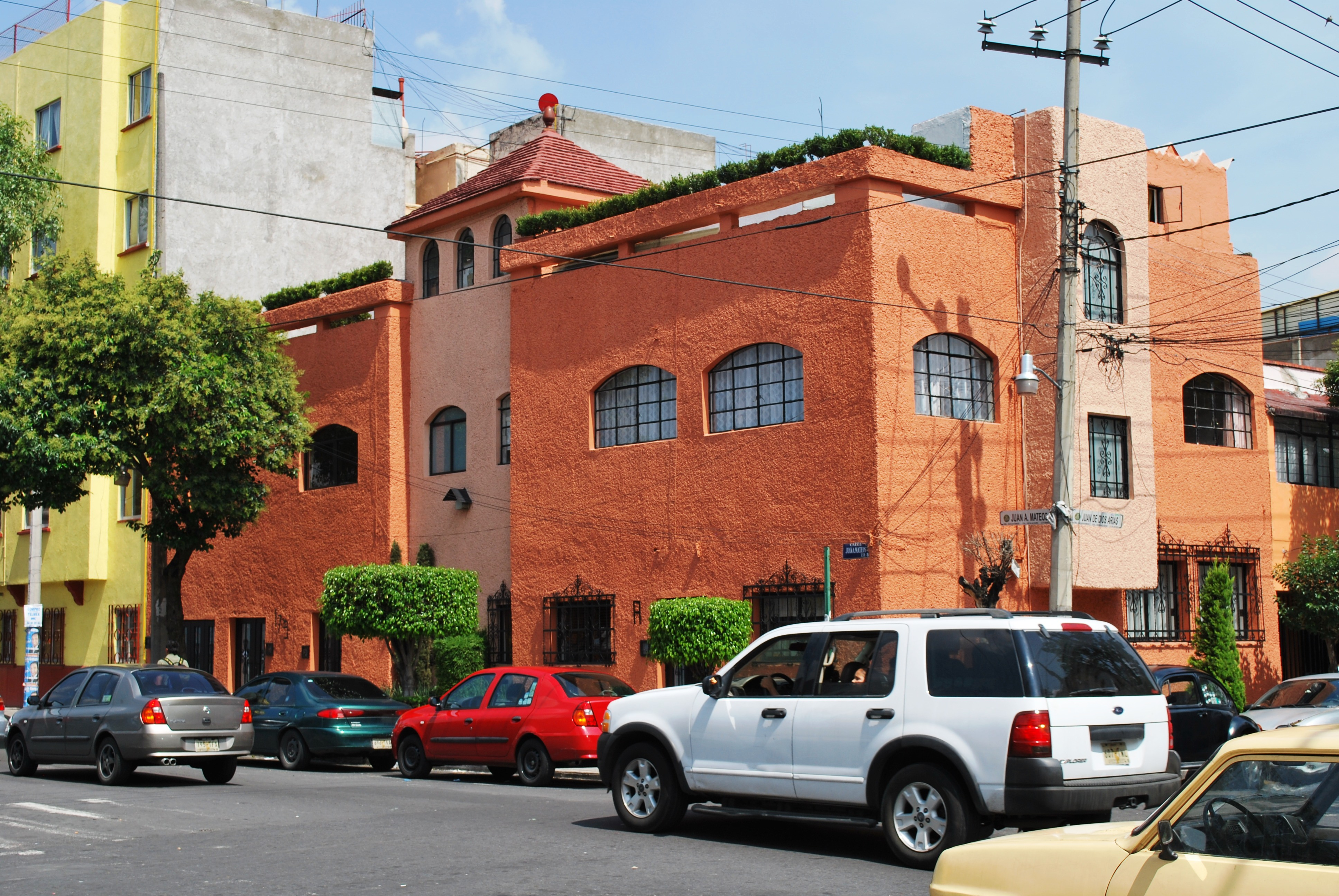 Interesting house in the Colonia Vista Alegre neighborhood intersection of Juan A Mateos and Juan de Dios Arias near Metro Chabacano in Mexico City